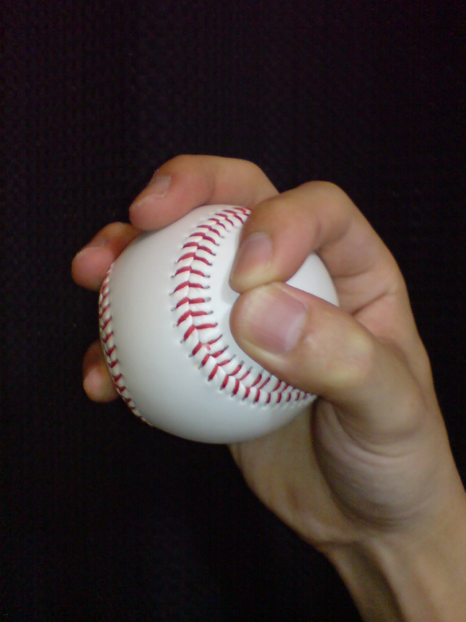 Circle change